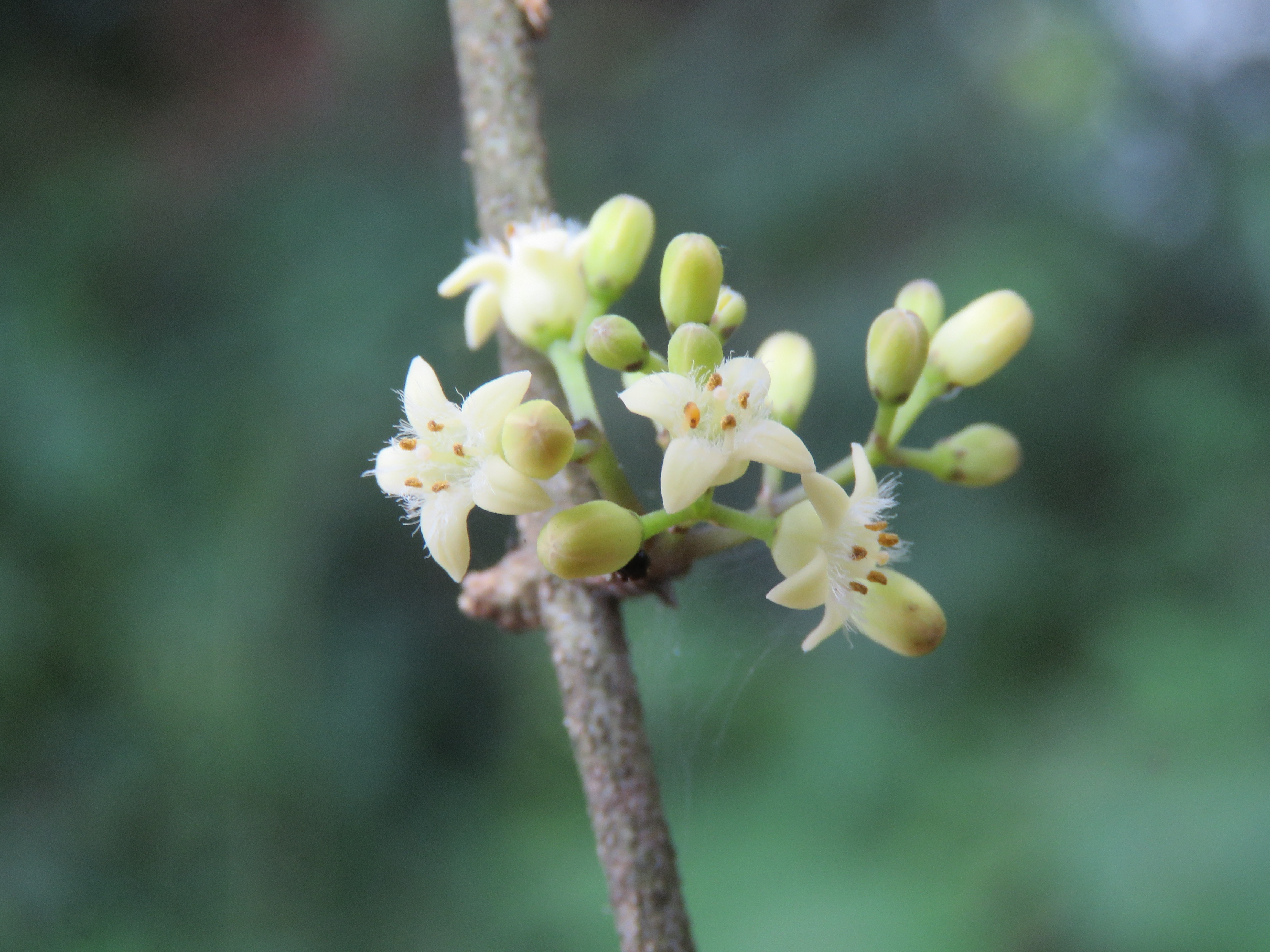 Photos from Peravoor and around 2018 - by Vinayaraj